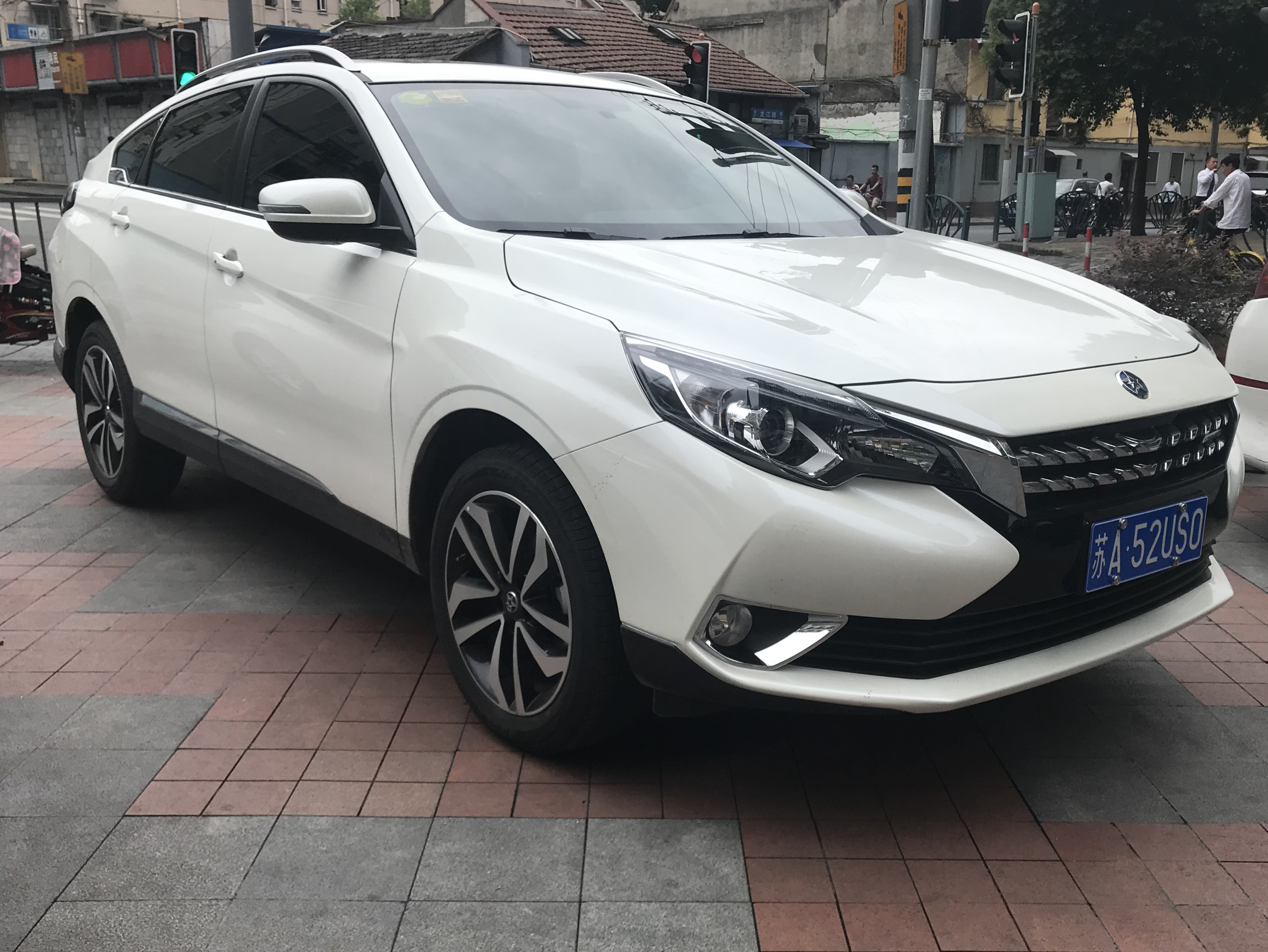 Venucia T90